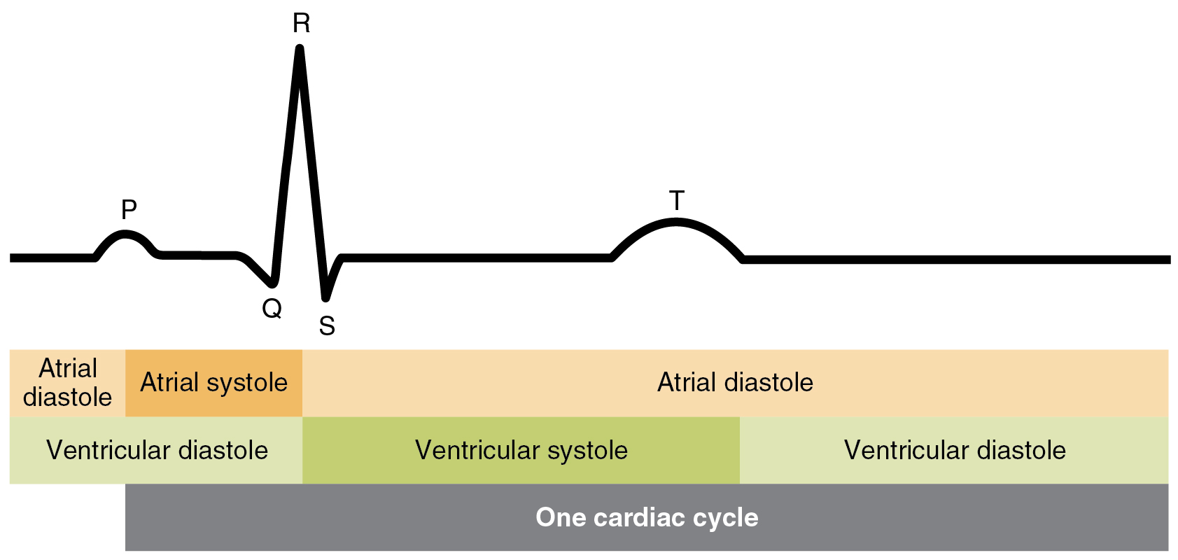 Illustration from Anatomy & Physiology, Connexions Web site. Jun 19, 2013.